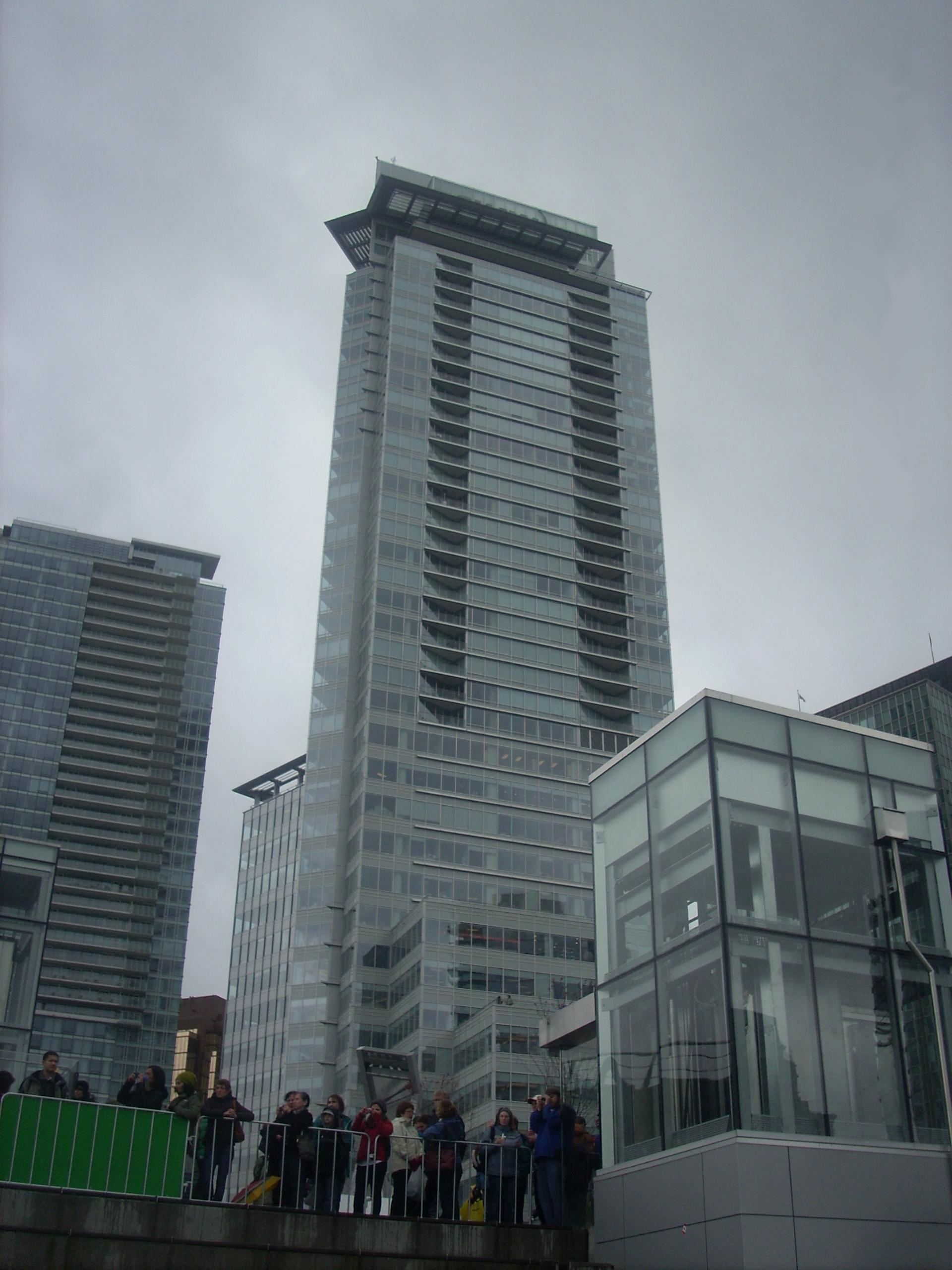 Shaw Tower photographed in Vancouver, British Coumbia, Canada at the 2010 Winter Olympics.